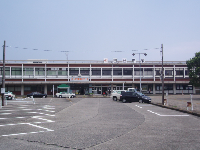 JR Central Kansai Main Line Yokkaichi Station building